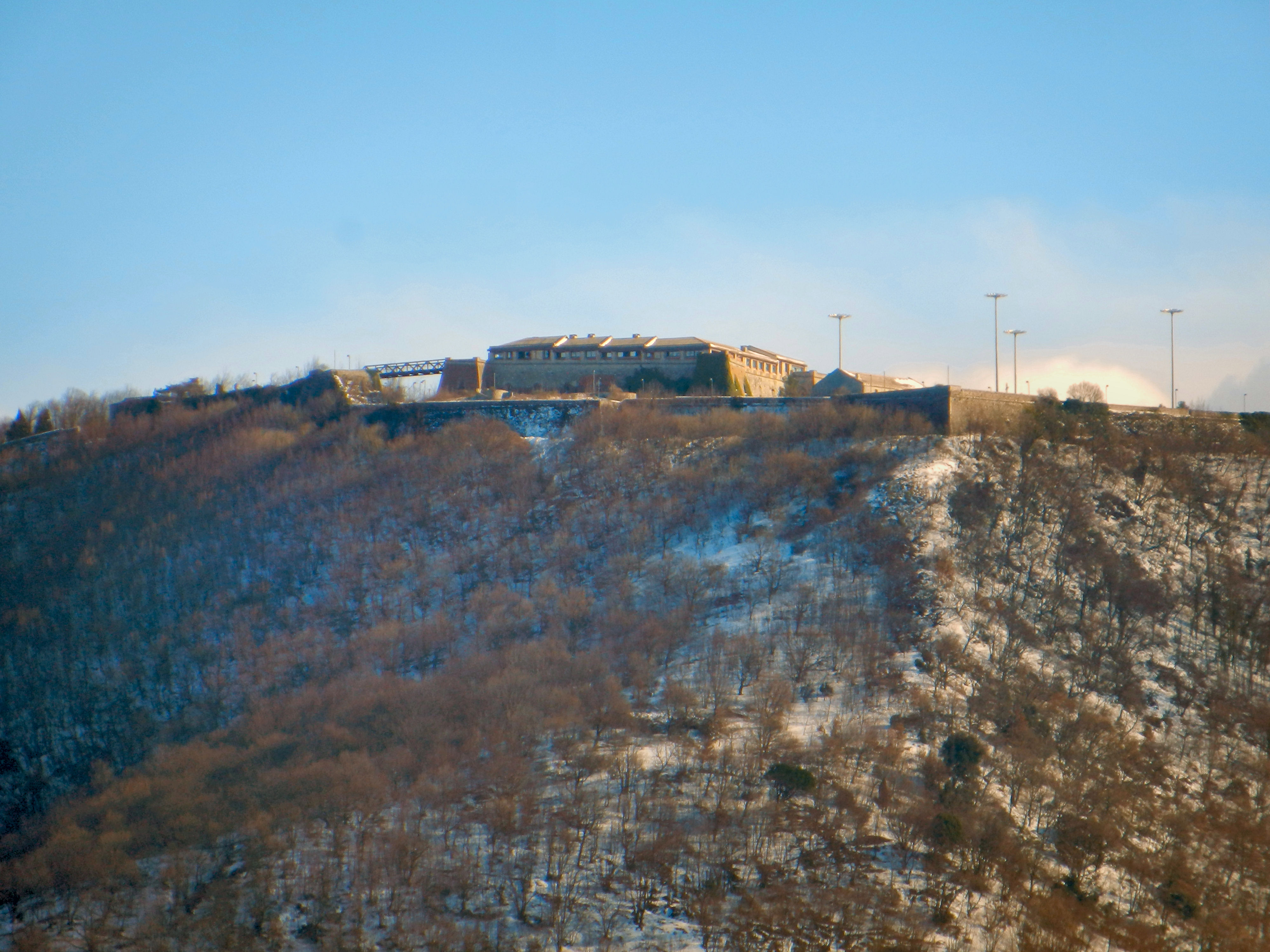 Genoa, Italy, fort Begato